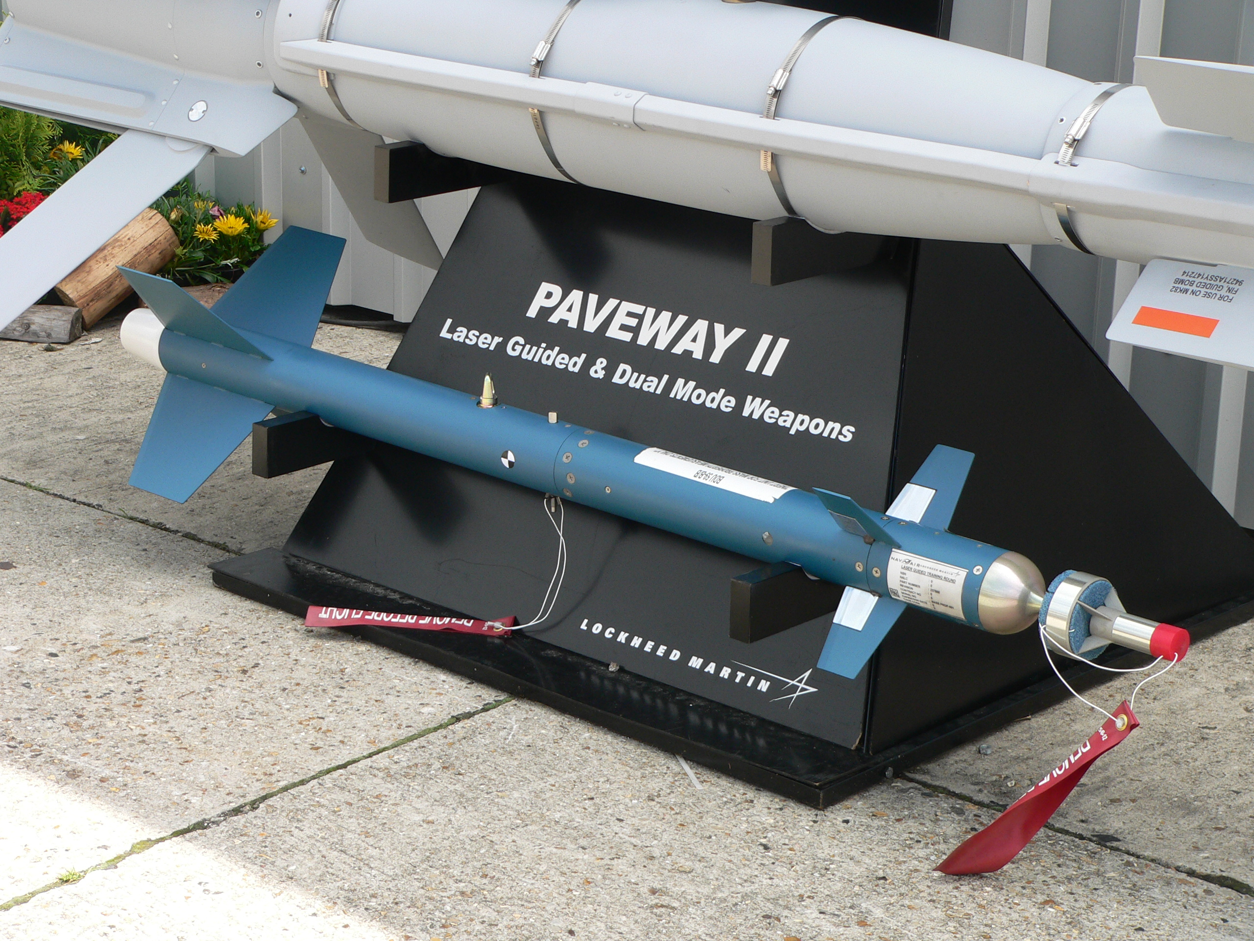 A Raytheon BDU 59 B/B "Paveway II" training bomb